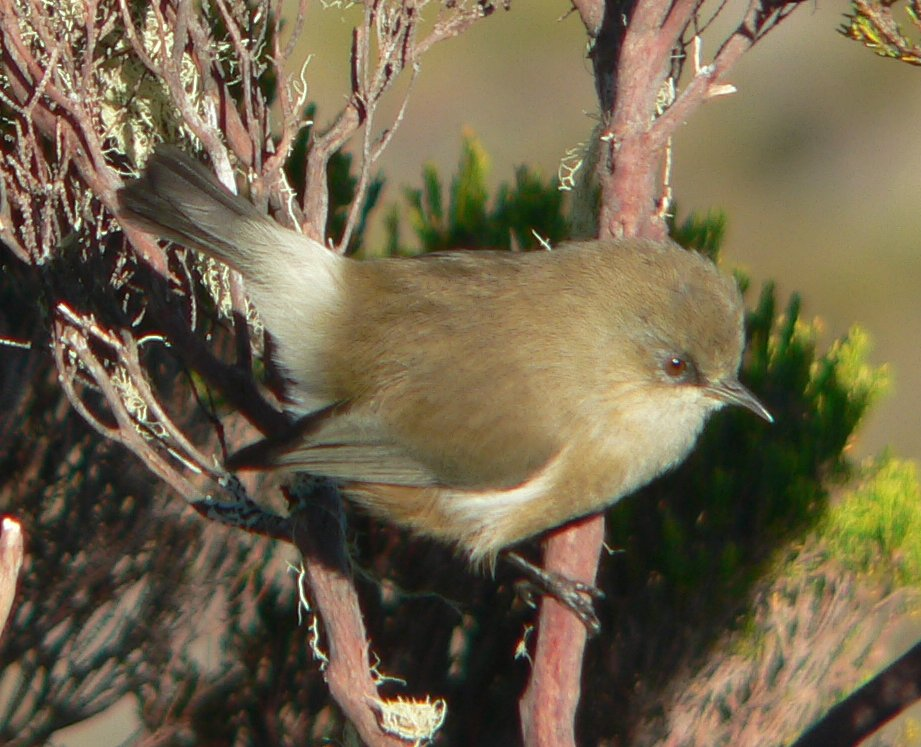 Zosterops borbonicus borbonicus Plaine des Chicots, la Réunion